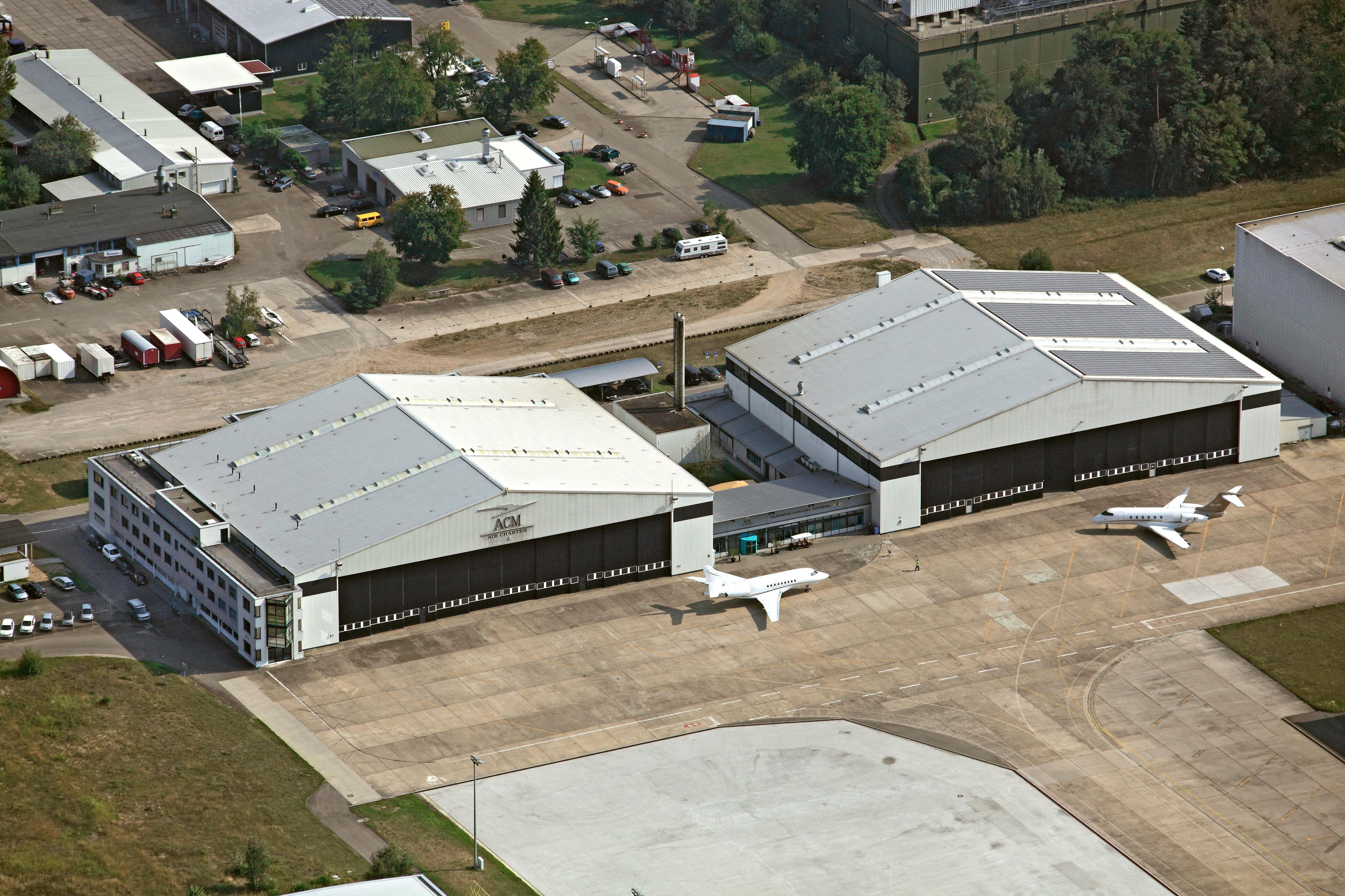 Aerial Image of the ACM Air Charter homebase